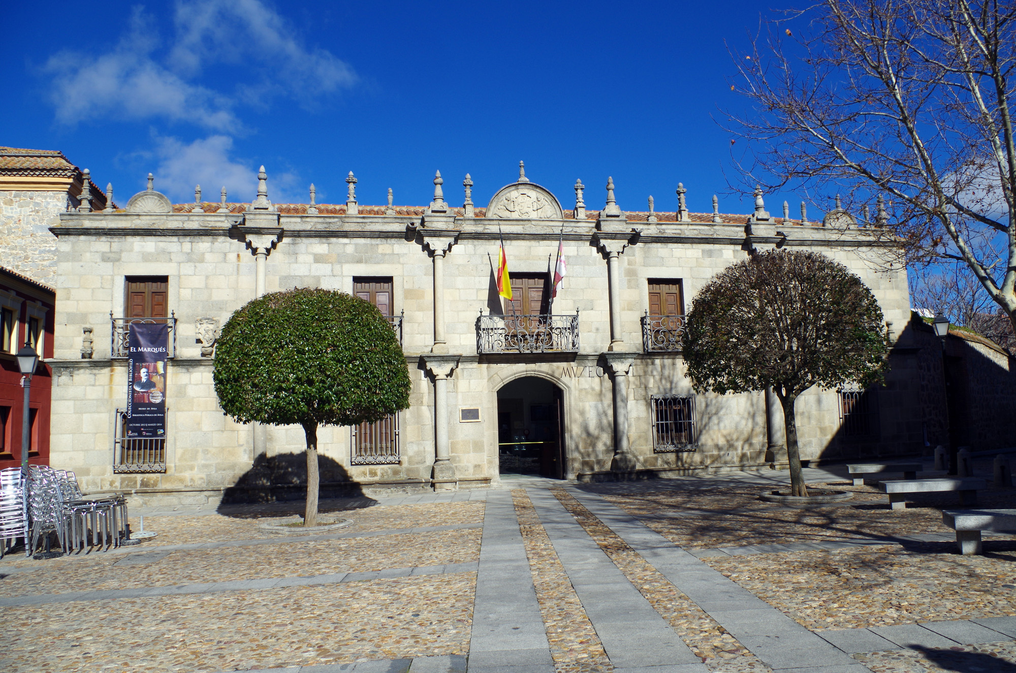 Casa de los Deanes (Deanes Manor House), headquarters of the Ávila Museum (Ávila, Spain).